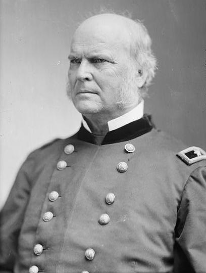 William M. Dunn Brady-Handy Photograph Collection, Library of Congress